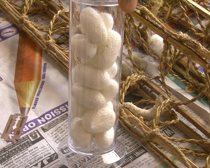 cover of pupa of Silkworm